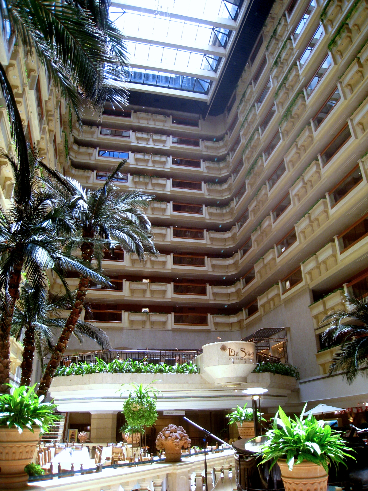 The Royal Garden Atrium